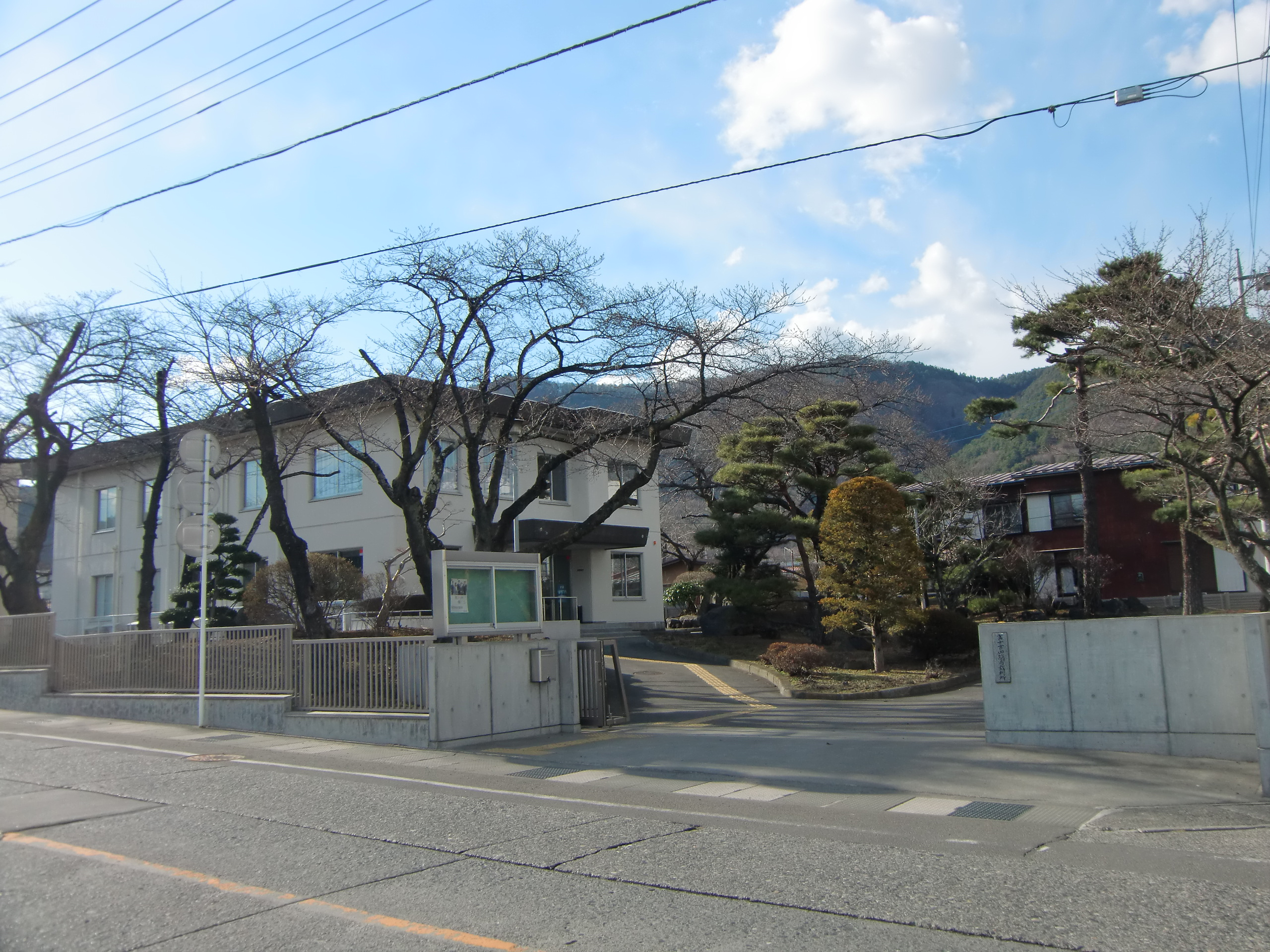 Fujiyoshida Summary court in Fujiyoshida-city, Yamanashi-pref, JAPAN.